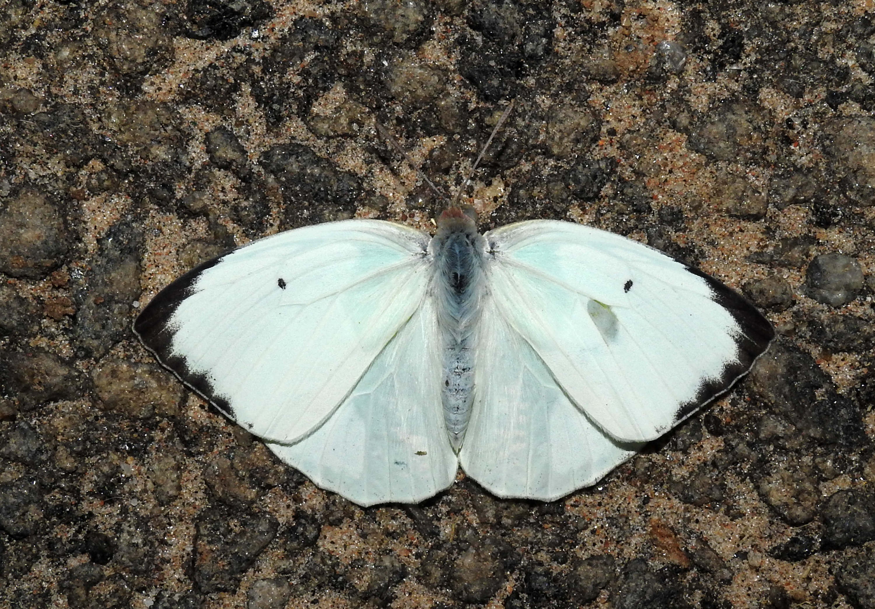 Mottled Emigrant Catopsilia pyranthe female upperside. Photographed at Point Calimere Bird Sanctuary, Tamil Nadu. kodiyakarai wildlife sanctuary